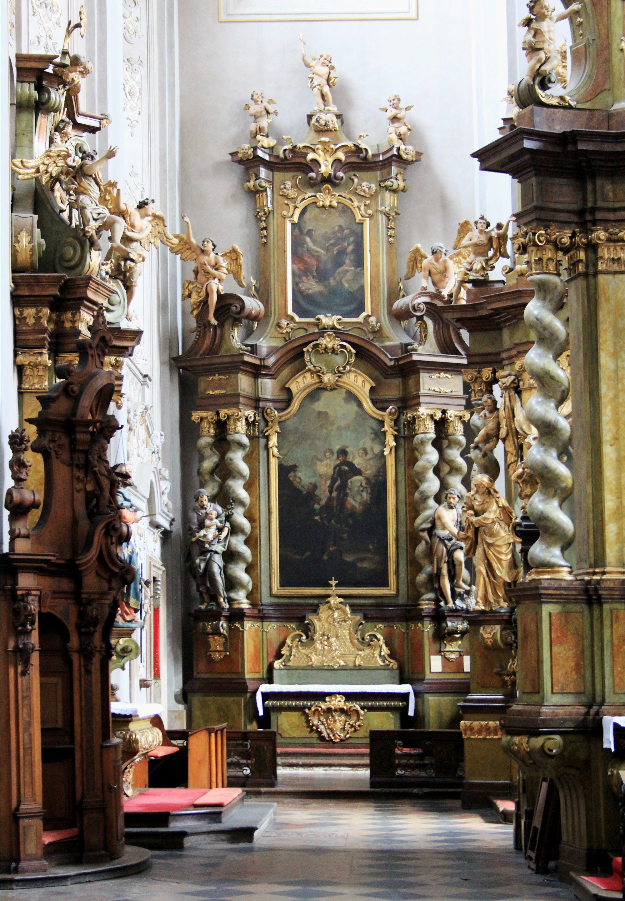 Interior of St Gilles's church in Prague, Czech Republic